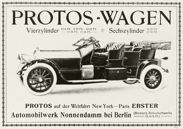 Advert for Protos Type E1 (18/42 PS), built 1906–1914. The car had a four cylinder motor with 4560 ccm and managed 44 bhp. for a speed of 90 km/h. This type of car was used for the round the world car race in 1908 Siemens-Archiv München; 2003